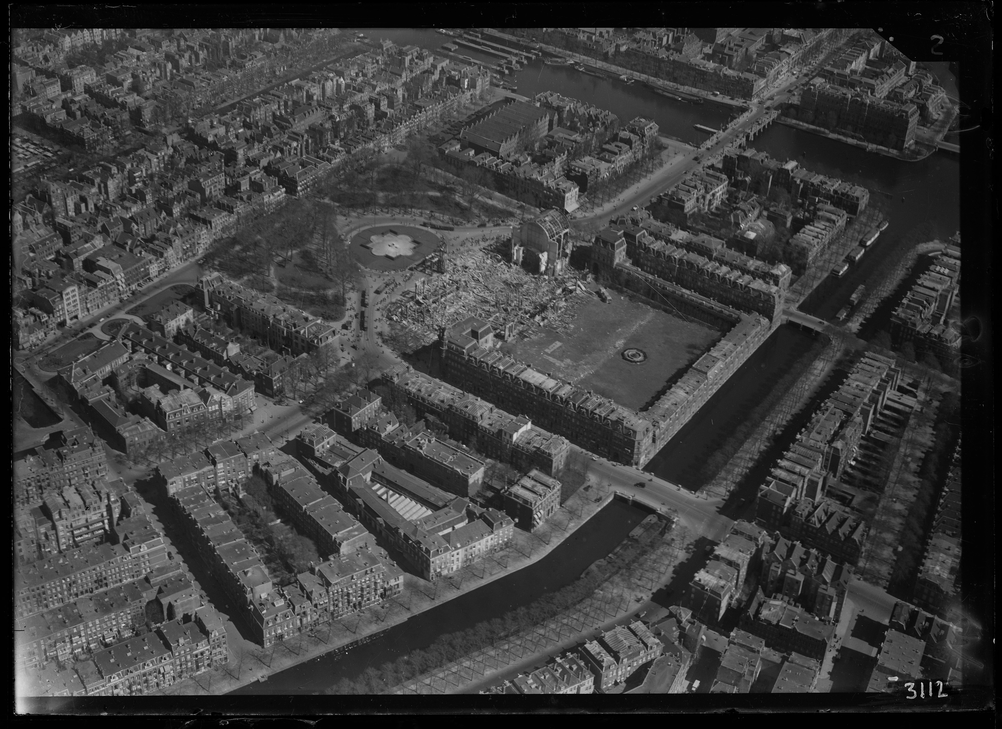 Aerial photograph of Amsterdam, The Netherlands. Paleis voor Volksvlijt after the fire of 1929.